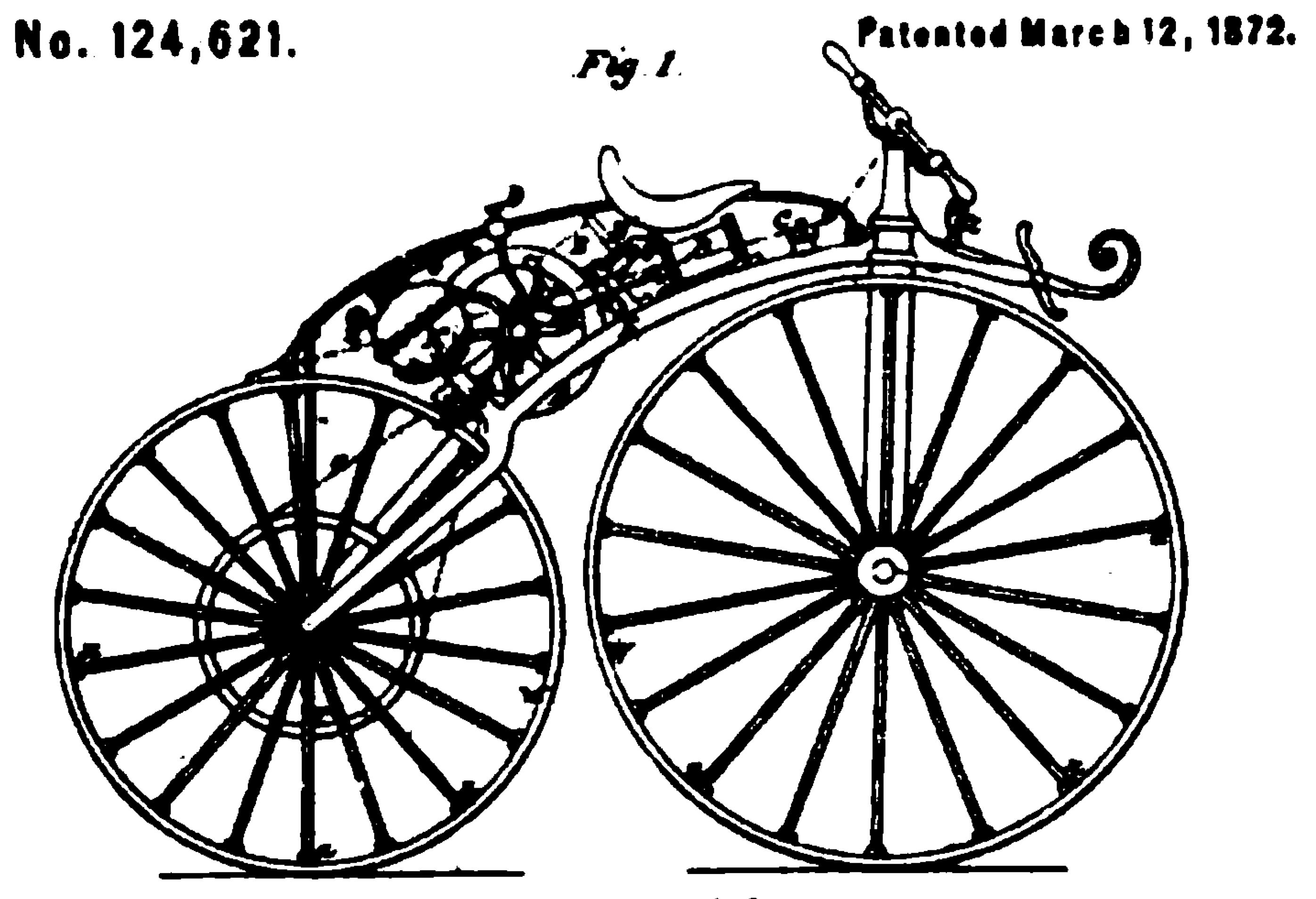 Closeup: Patent for improved Michaux-Perreaux steam velocipede. March 12, 1872. Title Digest of United States automobile patents from 1789 to July 1, 1899: including all patents officially classed as traction-engines for the same period. Chronologically arranged ... together with lists of patents in the classes of portable-engines, traction-wheels, electric locomotivs, and ... Compiled by James Titus Allen Publisher H. B. Russell & Company, 1900 Original from Princeton University Digitized Feb 5, 2010